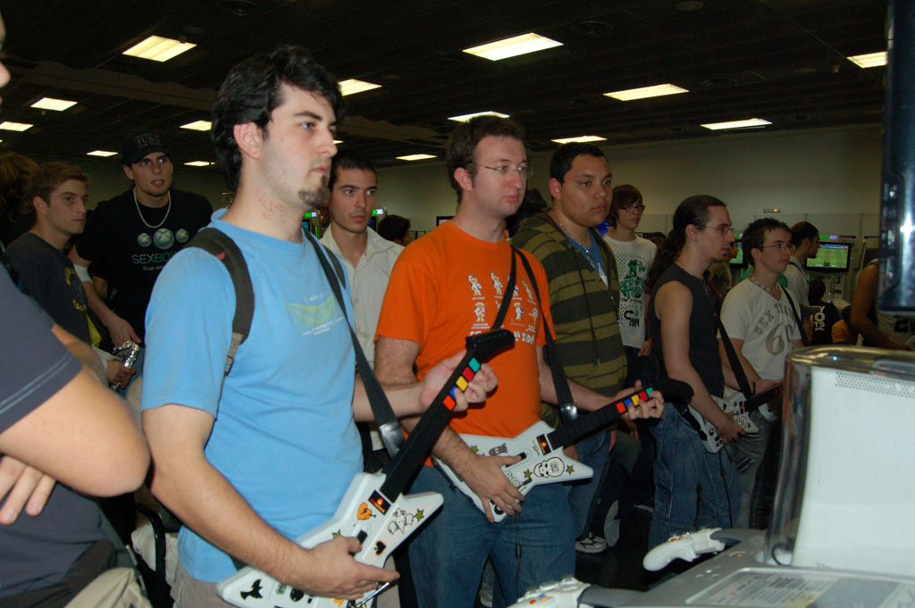 People playing Guitar Hero III in Barcelona, Spain.